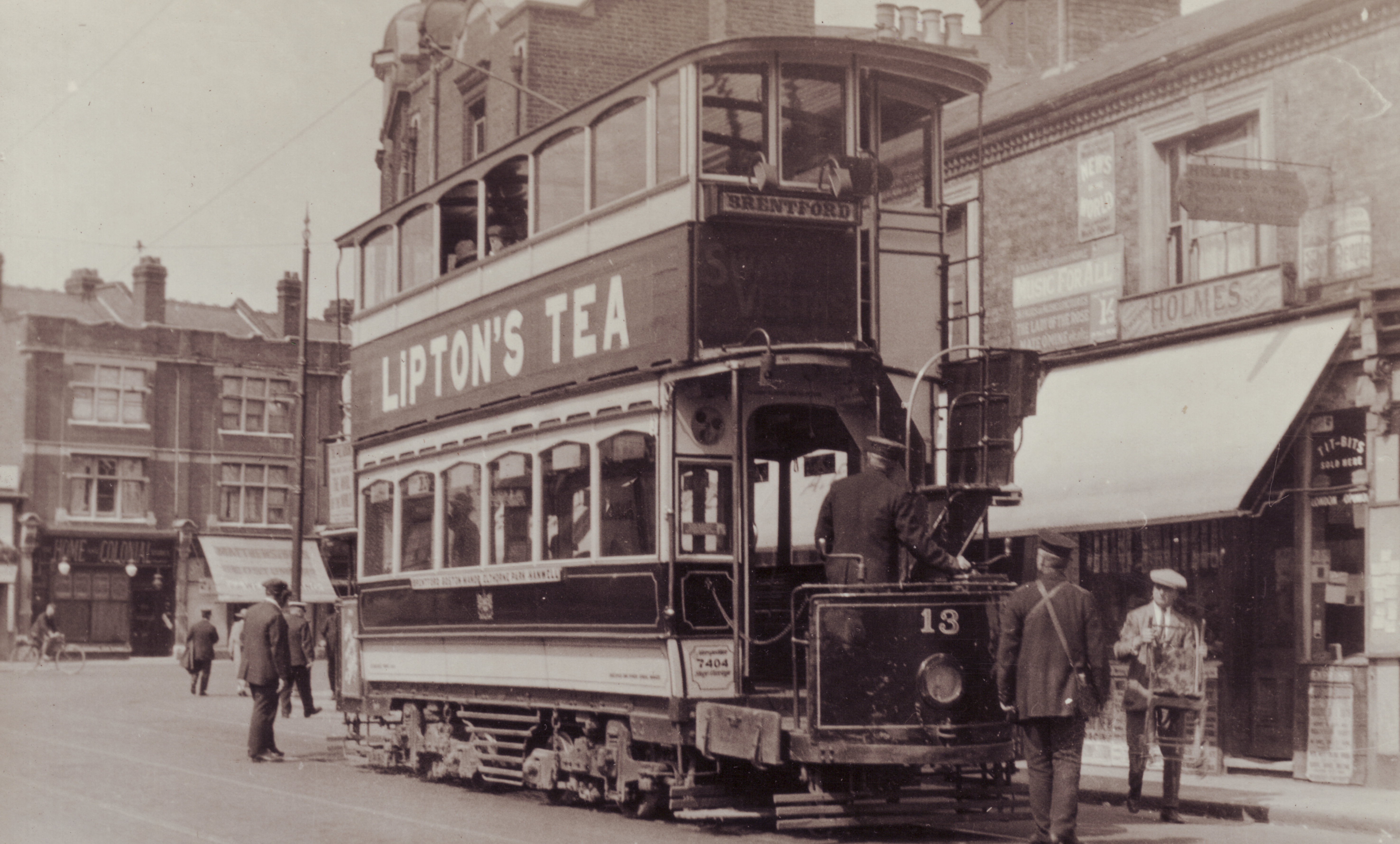 Looking north. A Hanwell to Brentford tramcar in Boston Road with the Uxbridge Road in the Background. An iron pillar supporting the canopy of the present Café Gold can just be seen on the far lefthand side. The tram has stopped outside what is now a Kebab shop. Service first began on 26th May 1906. Image obtained with thanks from the private collection of Mr. P. H. Lang.